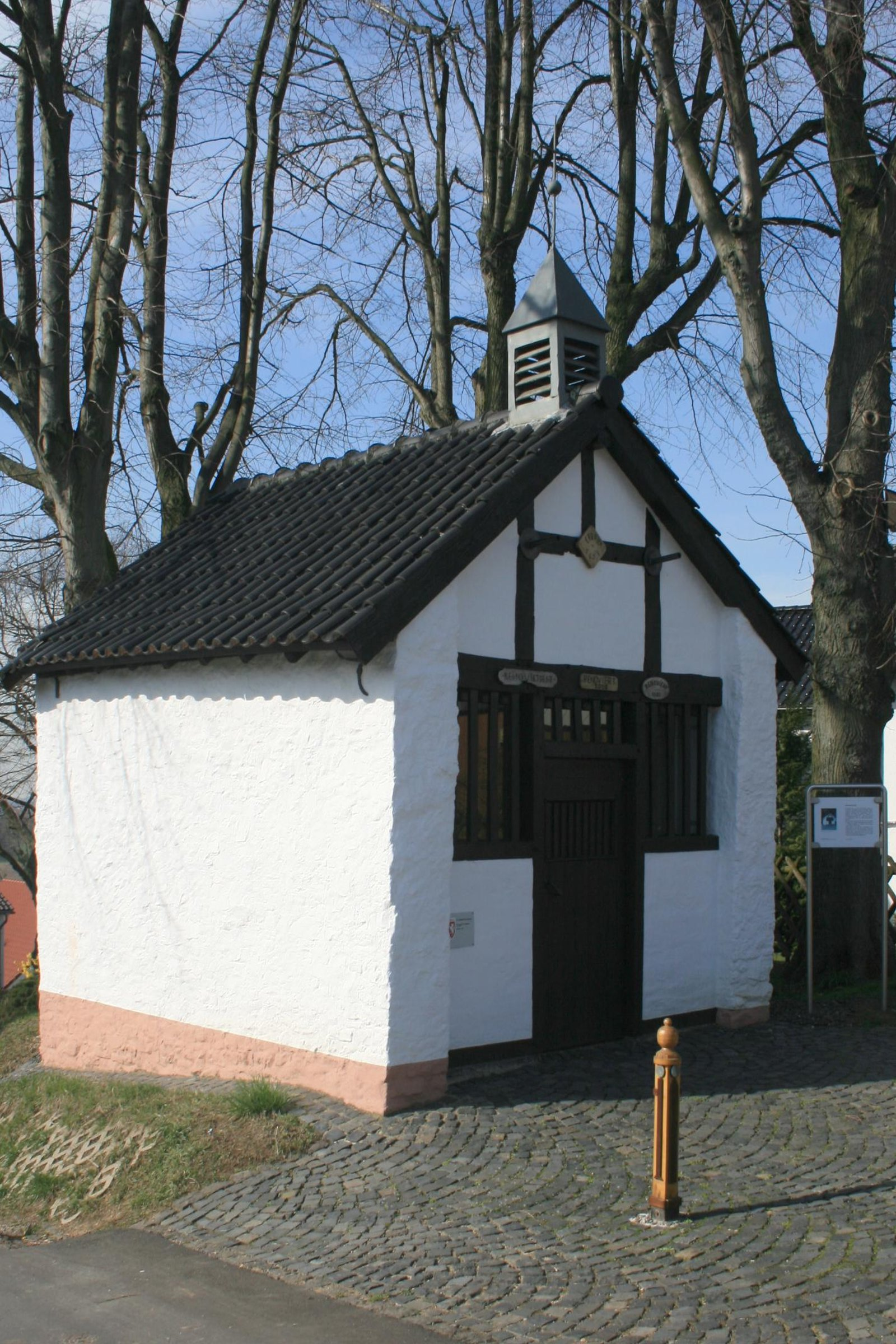 Cultural heritage monument No. 33 in Langerwehe